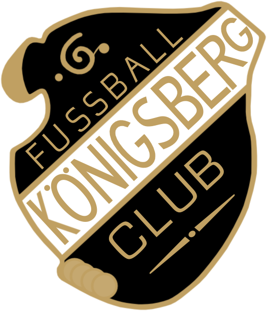 Logo of FC Königsberg, German football team.